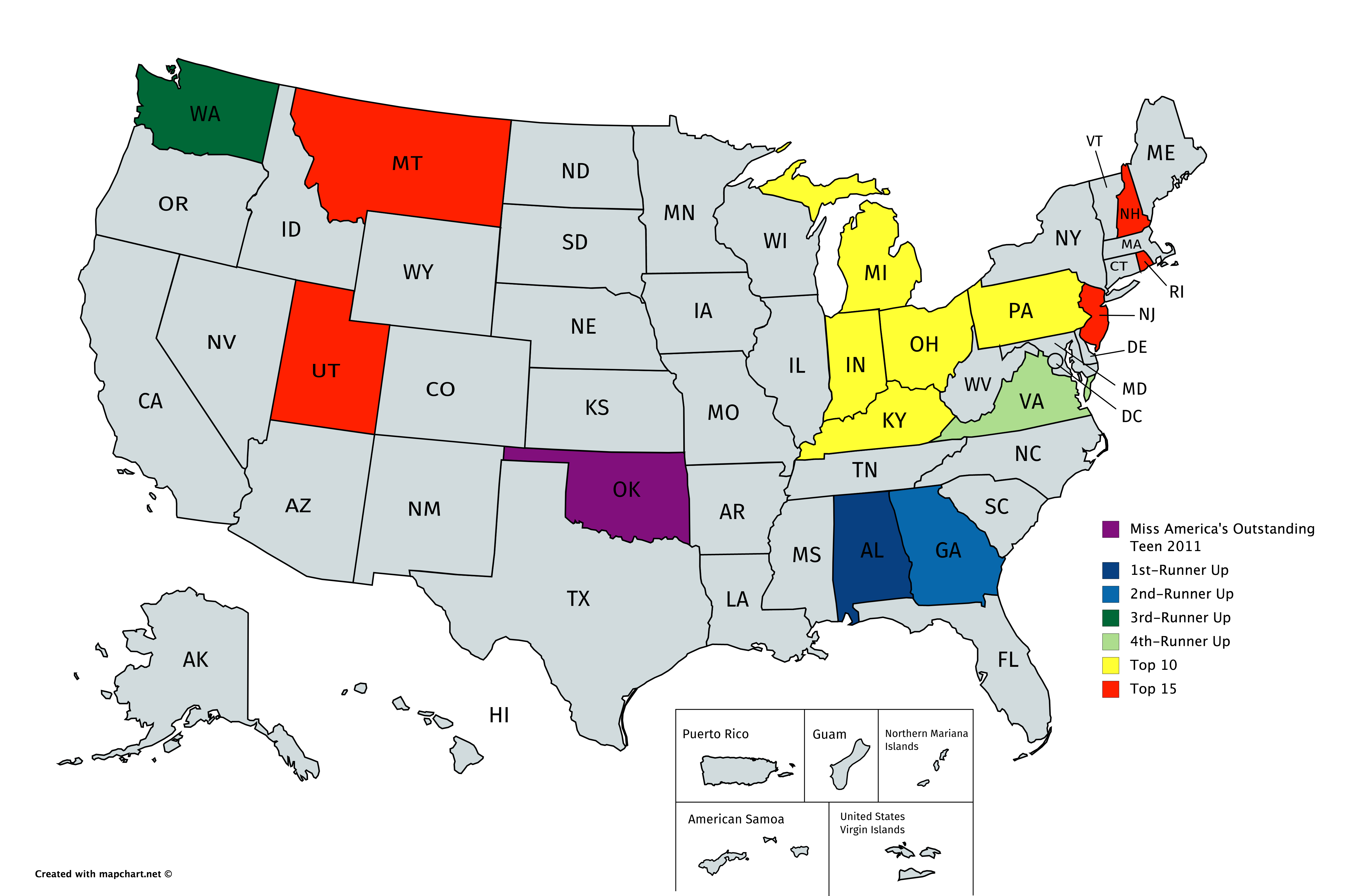 Placements of Miss America's Outstanding Teen 2011 on a map